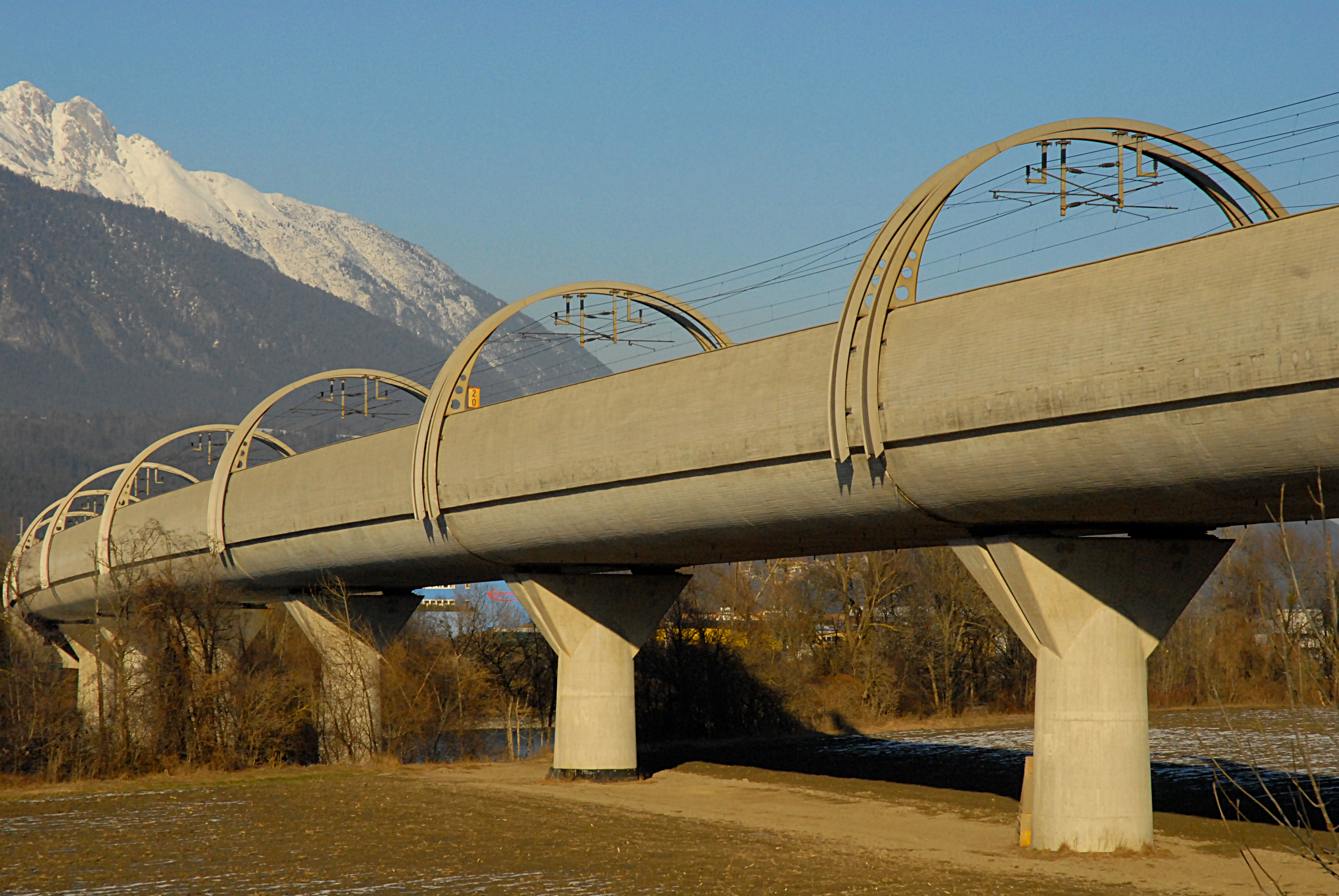 Innbridge of the railway Innsbruck bypass near Volders